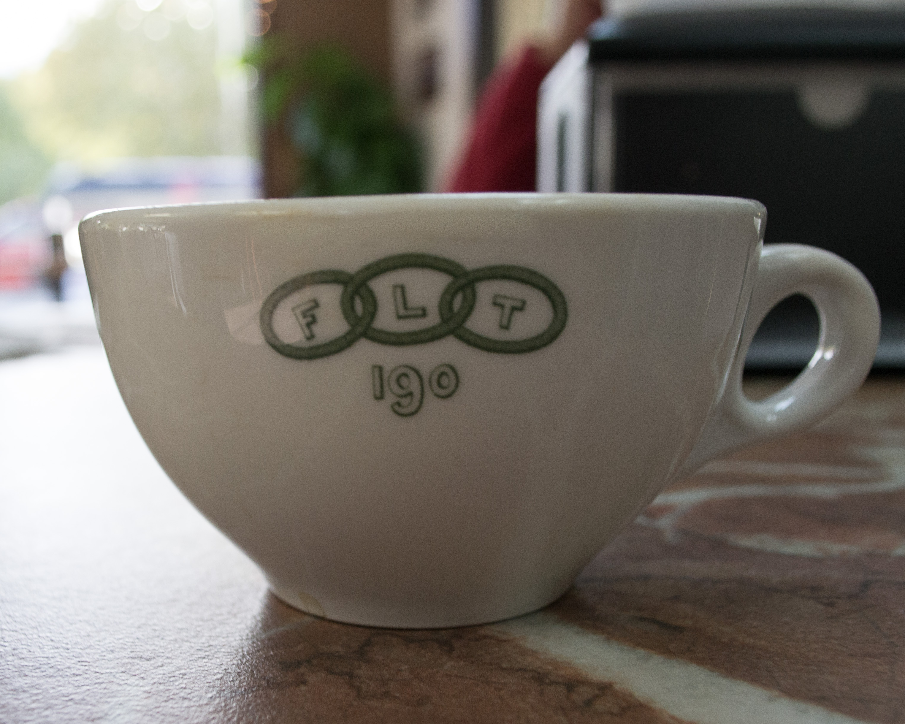 A three-link symbol cup from Odd Fellows Lodge No. 190